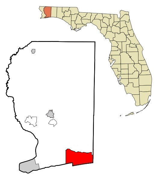 A map, that has Milton shaded in, due to the fact that it is an incorporated municipality, this is a updated version of the map of Santa Rosa County that is already on Wikipedia.